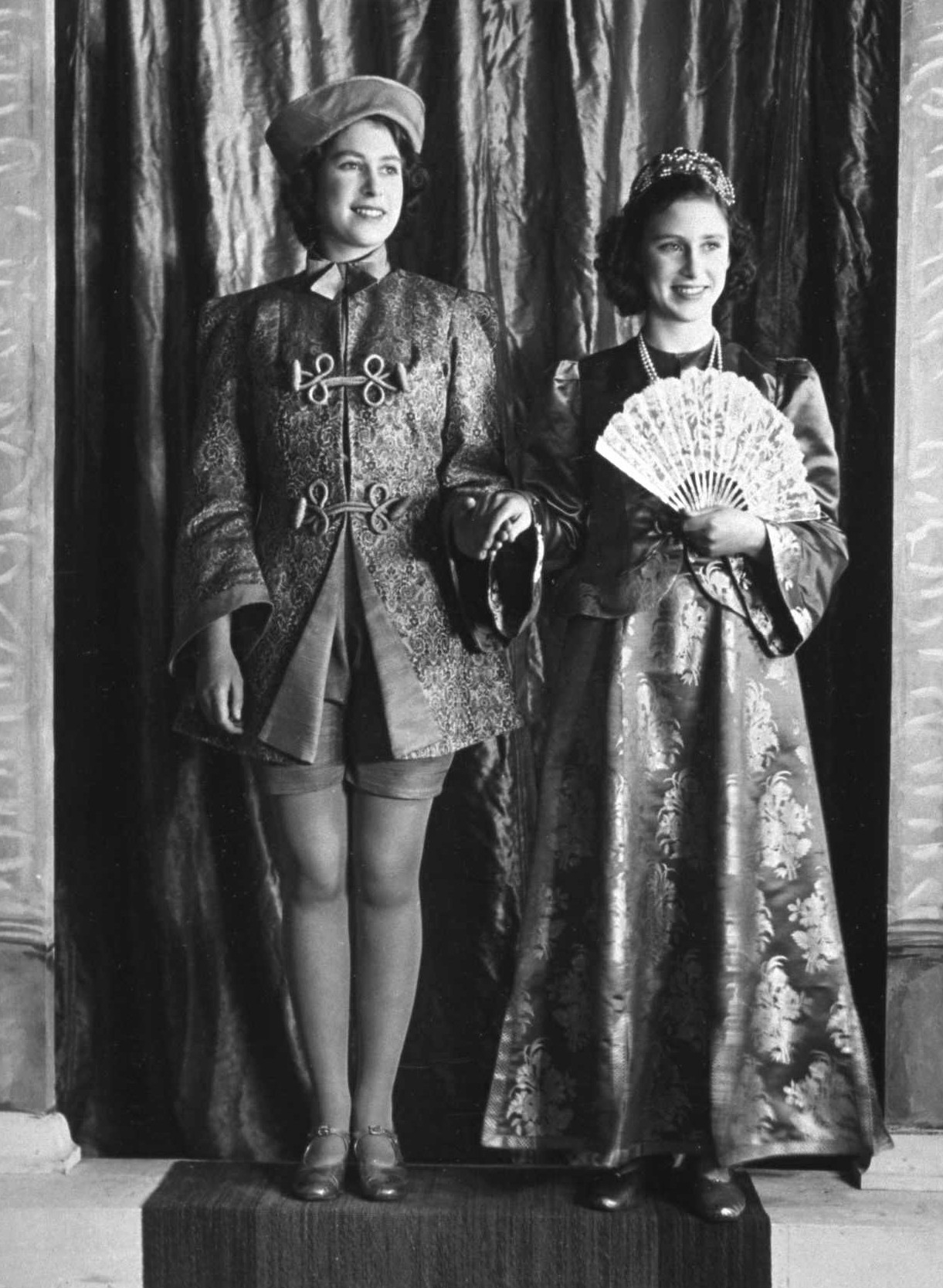 Daily Herald Archive at the National Media Museum A gelatin silver photograph of Princesses Elizabeth and Margaret starring in a Windsor Castle wartime production of the pantomime Aladdin. Princesses Elizabeth, our current Queen, played Principal Boy whilst Princess Margaret played Princess of China.